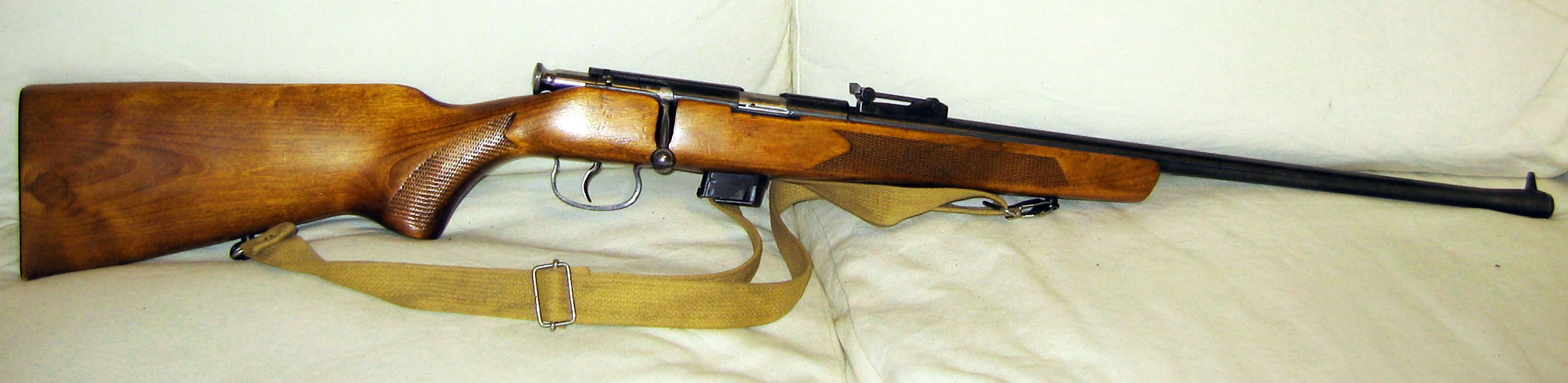 Toz 17 with sling, seen from right hand side